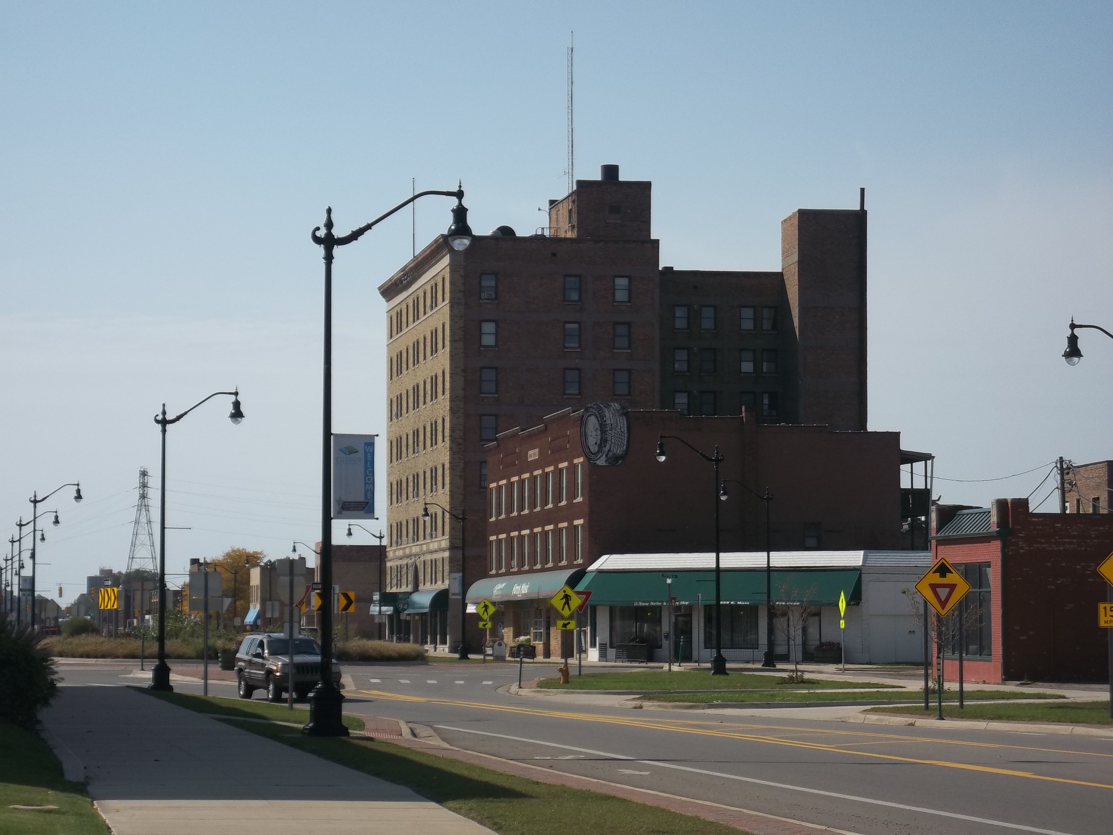 A newly built Main Street